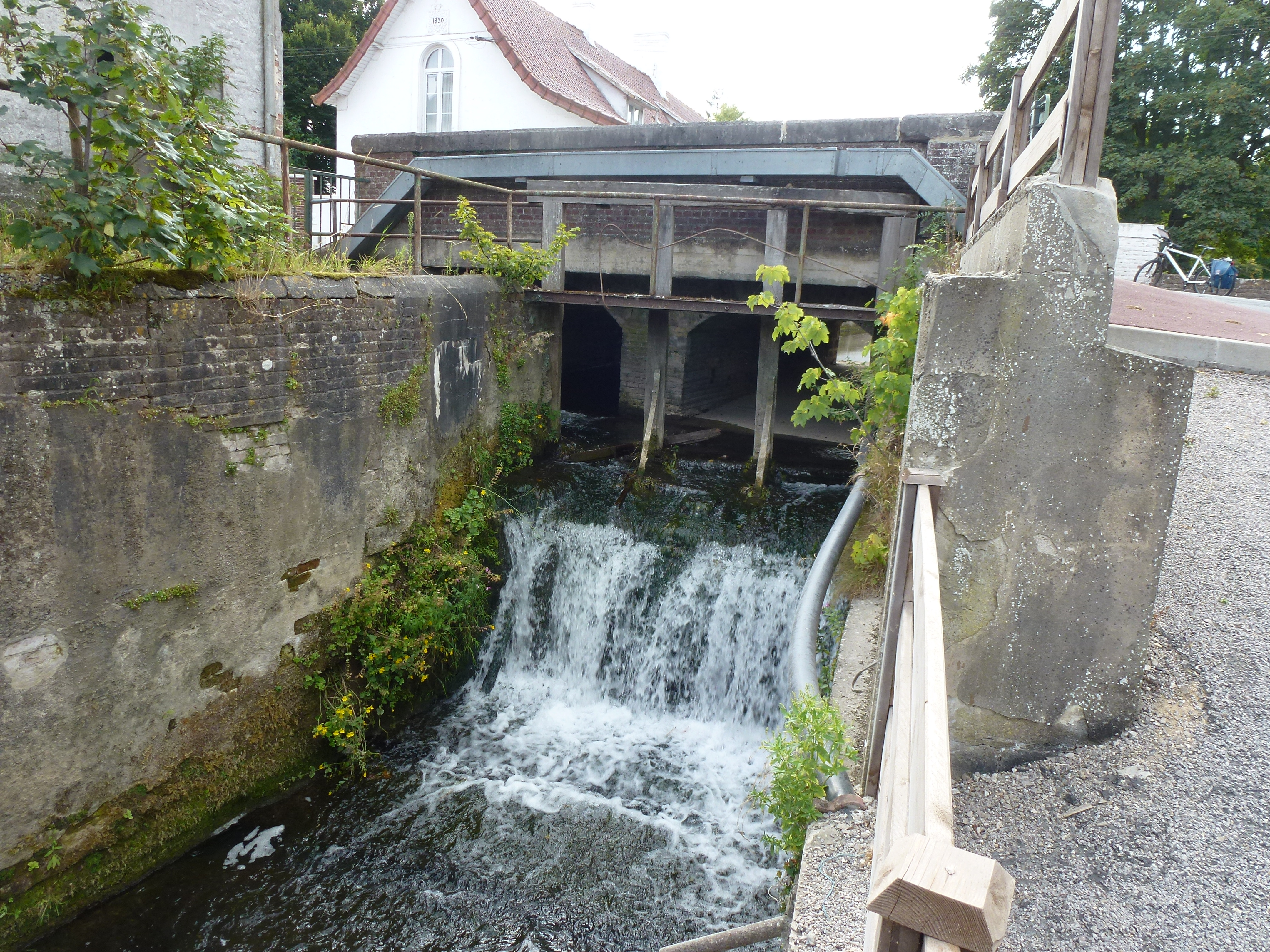 Tournehem-sur-la-Hem (Pas-de-Calais, Fr) moulin à eau sur la Hem